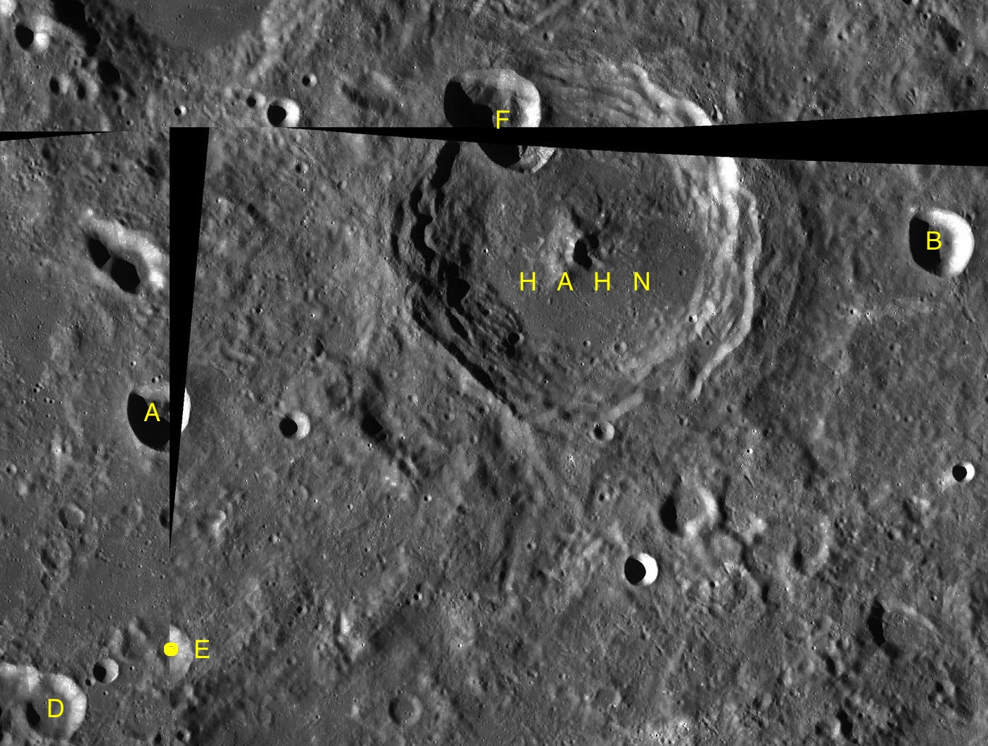 Parts of the charts LAC-28, LAC-44, LAC-45